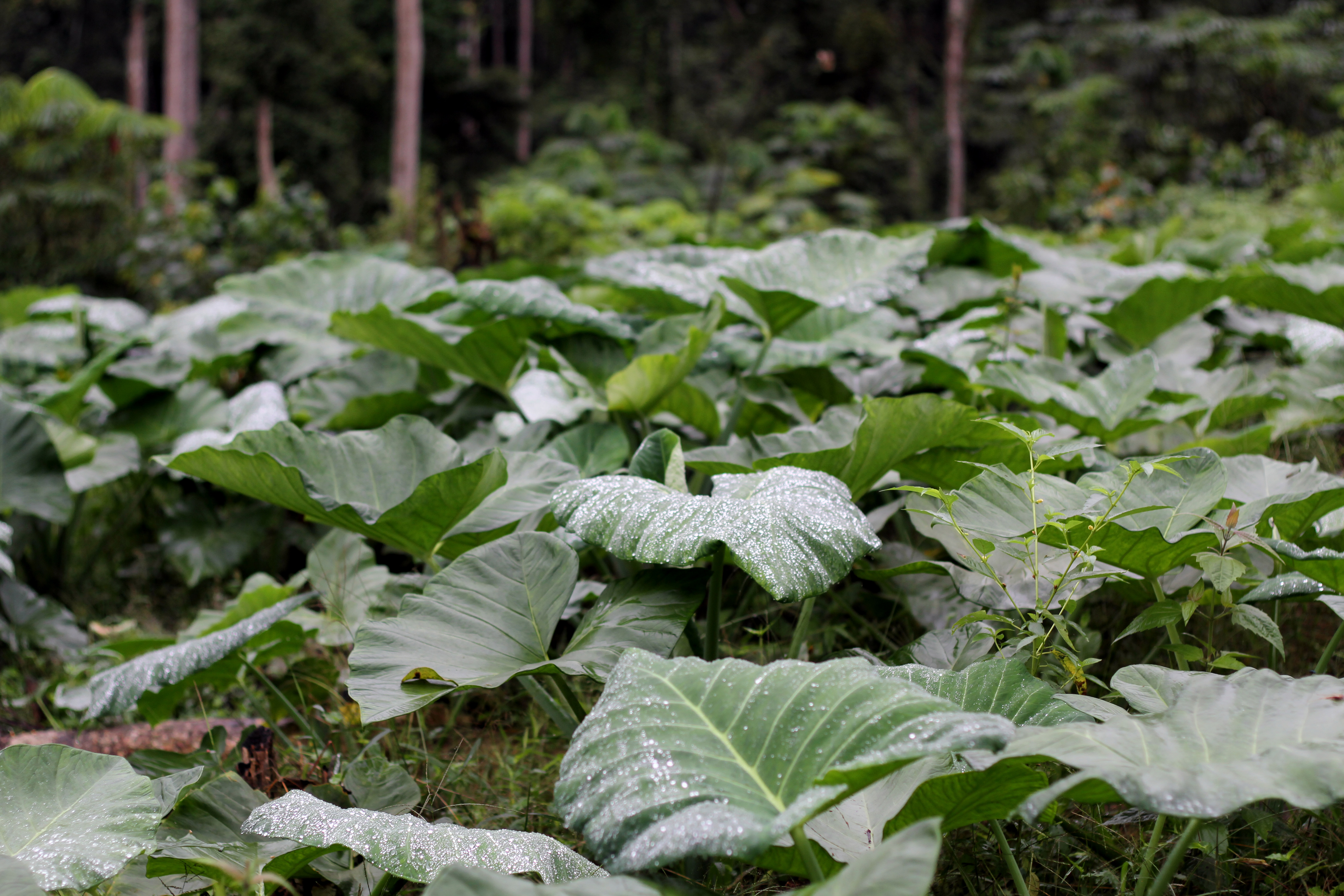 Farms in Tayap (Cameroon)